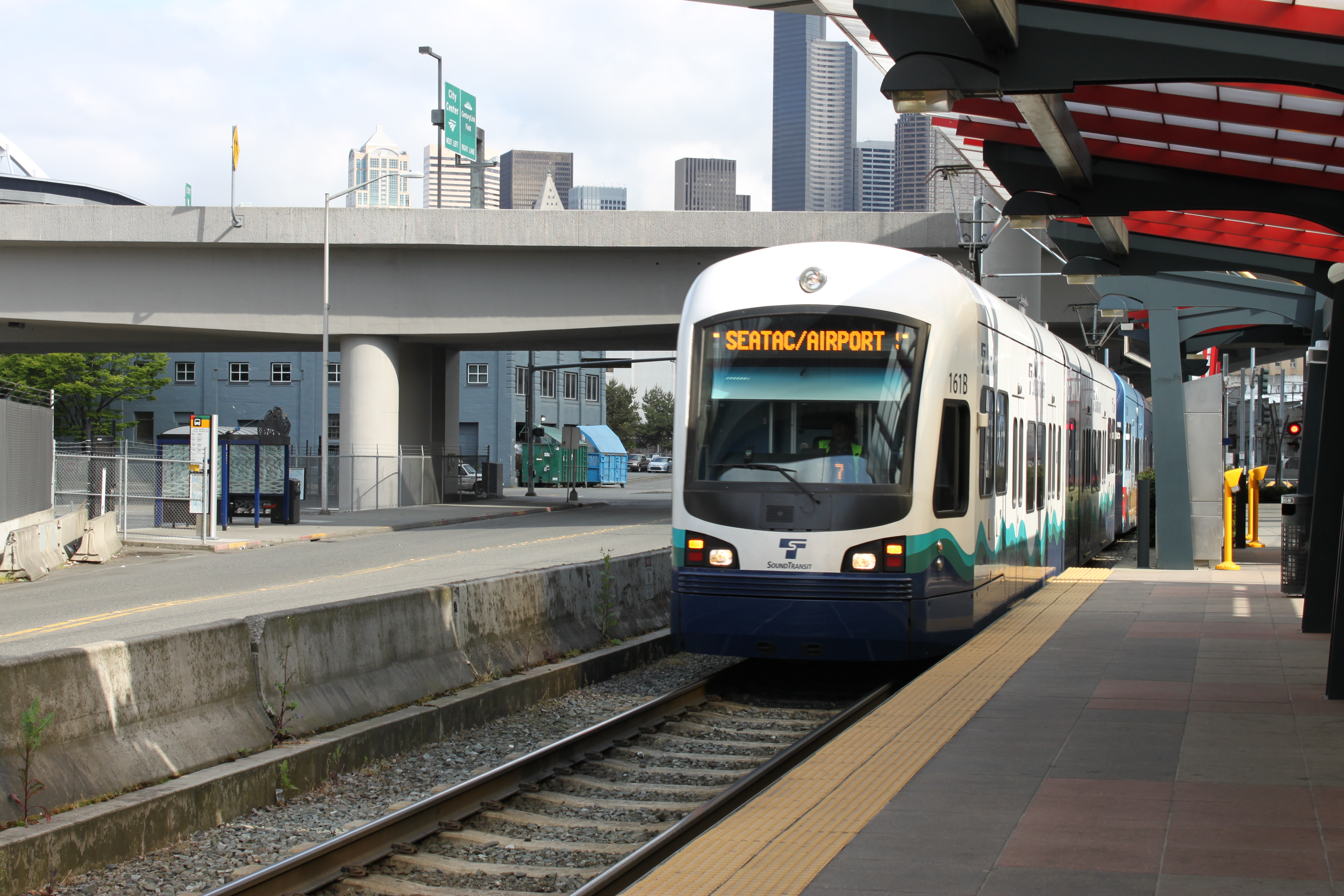 Link 161 at Stadium Station